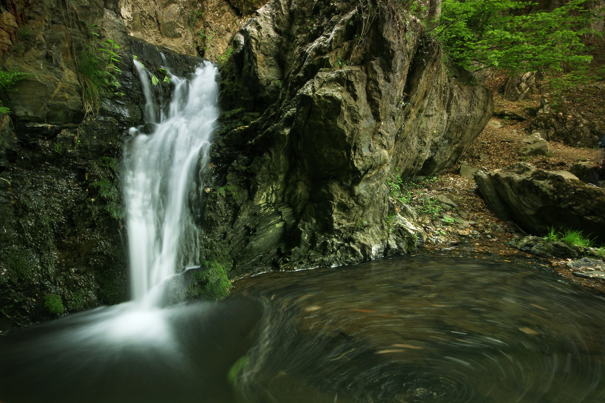 Shala e Bajgores